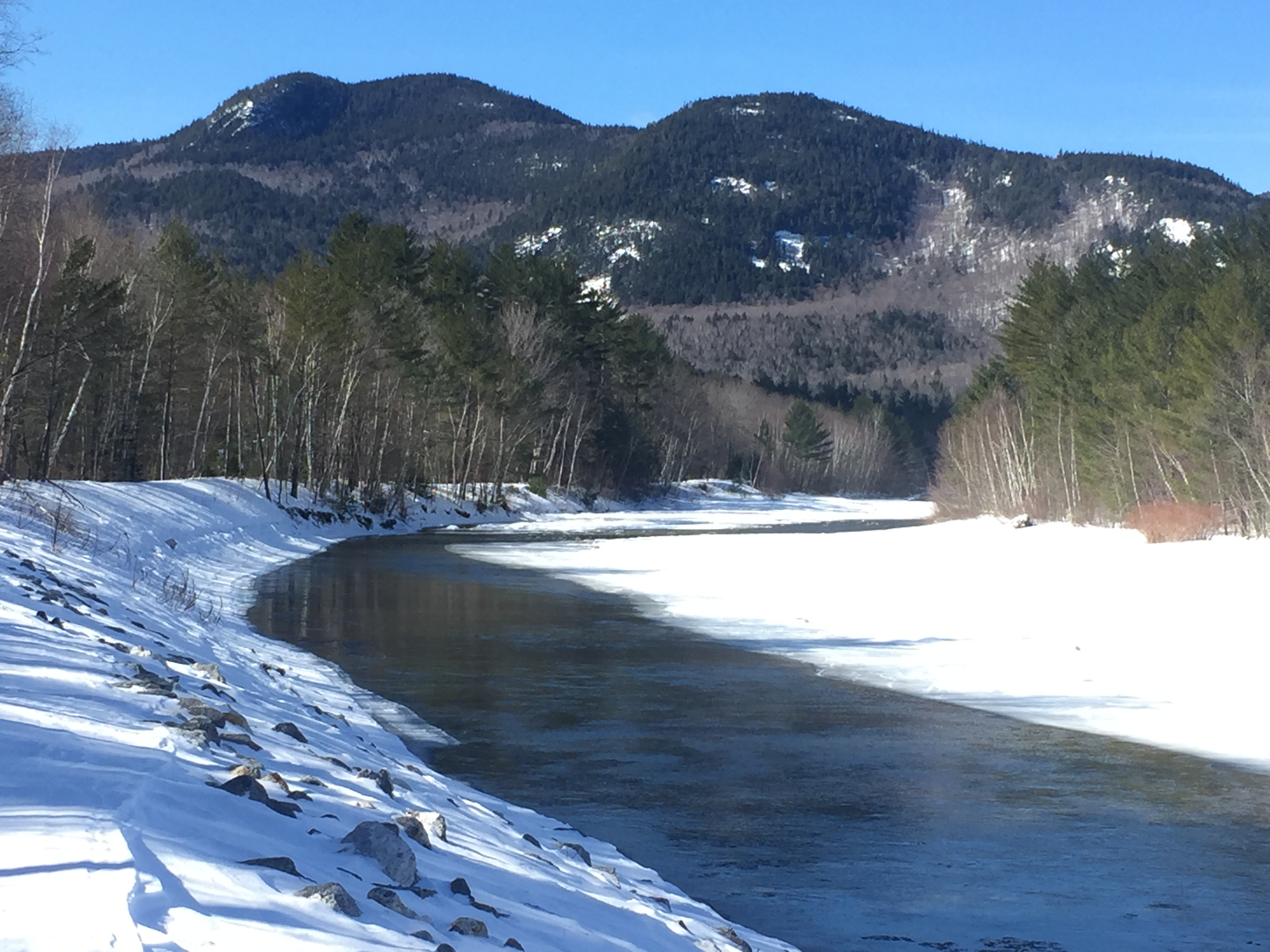 Bartlett Haystack rising over the Saco River in Bartlett, New Hampshire